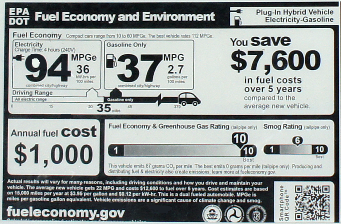 EPA/DOE fuel economy and environment label for the 2012 Chevrolet Volt plug-in hybrid